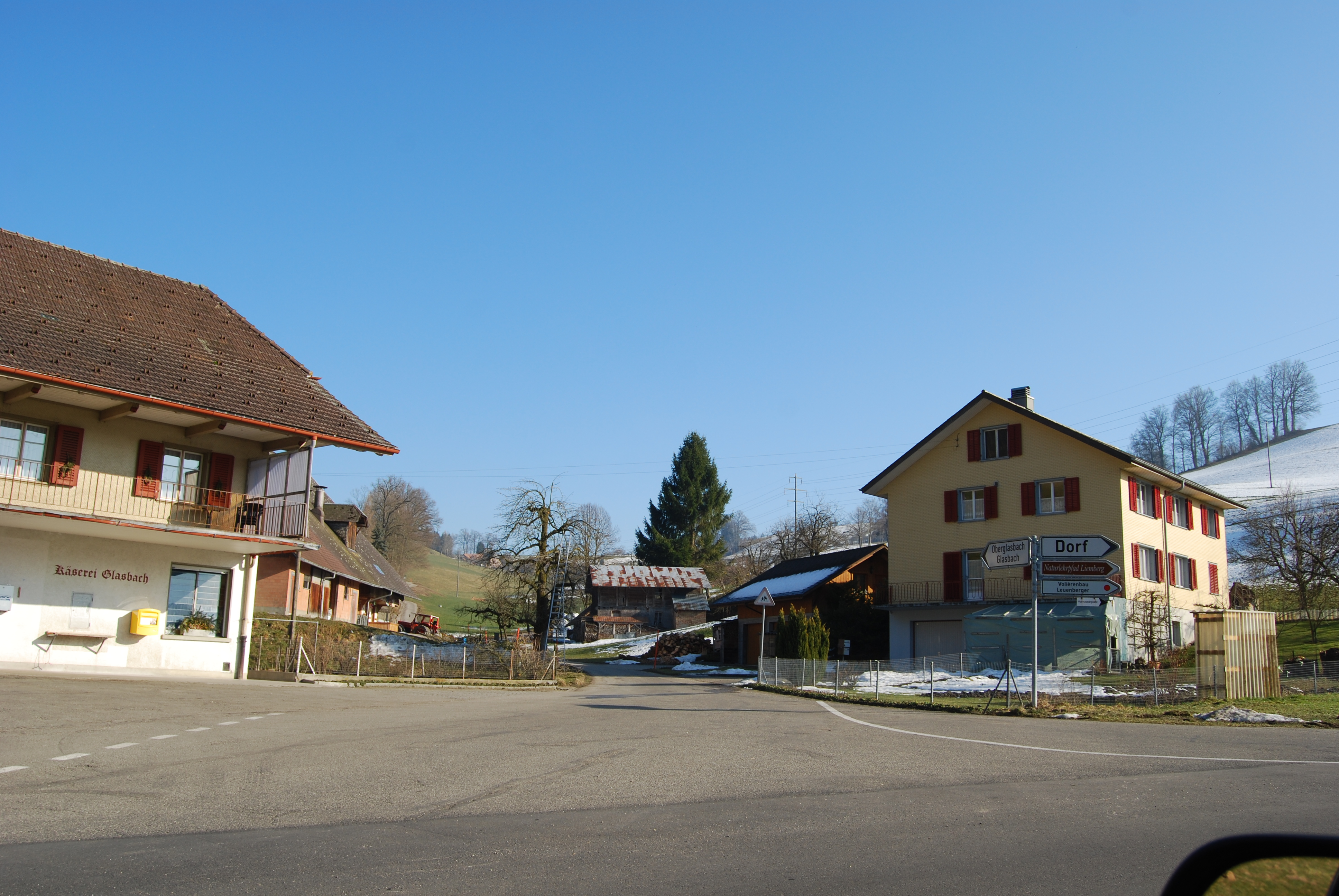 Rohrbachgraben, canton of Bern, SwitzerlandEsperanto: Rohrbachgraben, Kantono Berno, Svislando